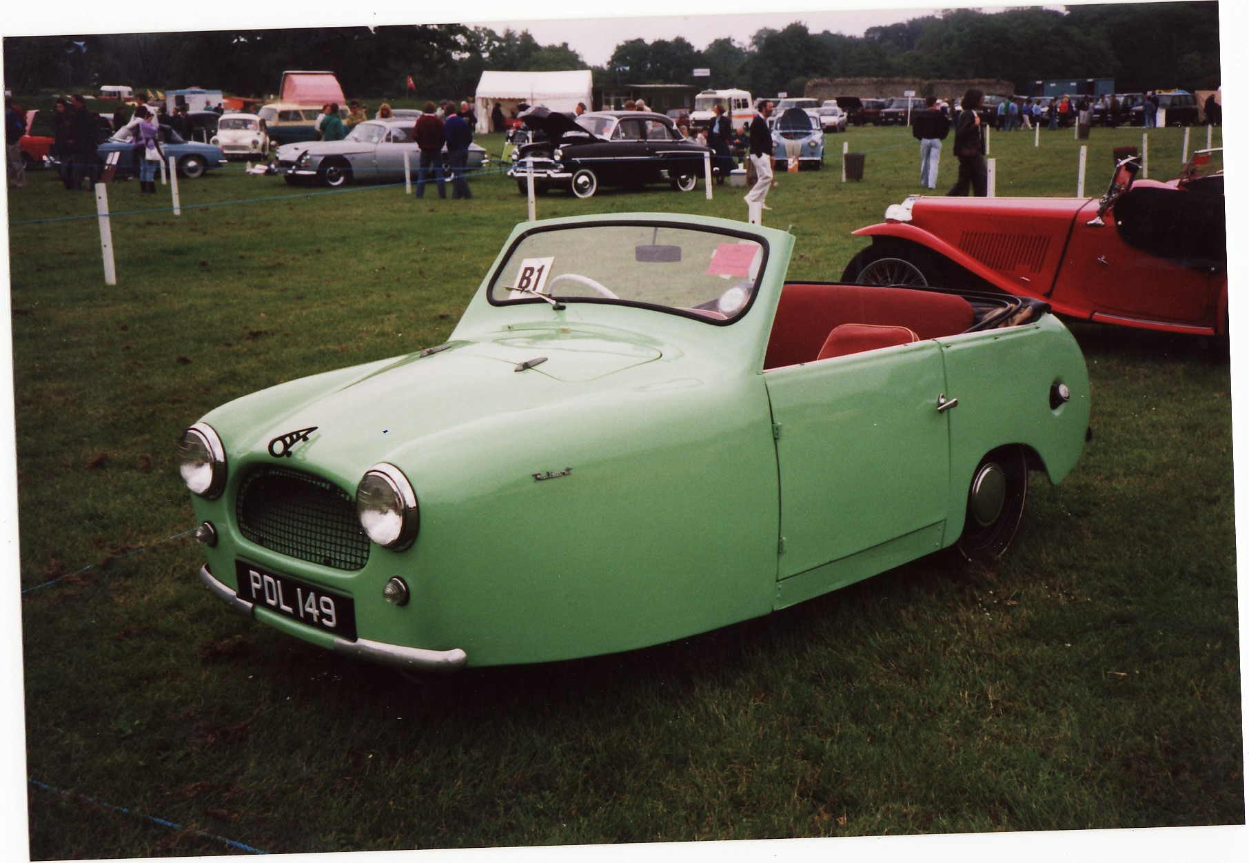 Spotted at a Rally at the National Motor Museum, Beaulieu in 1991.